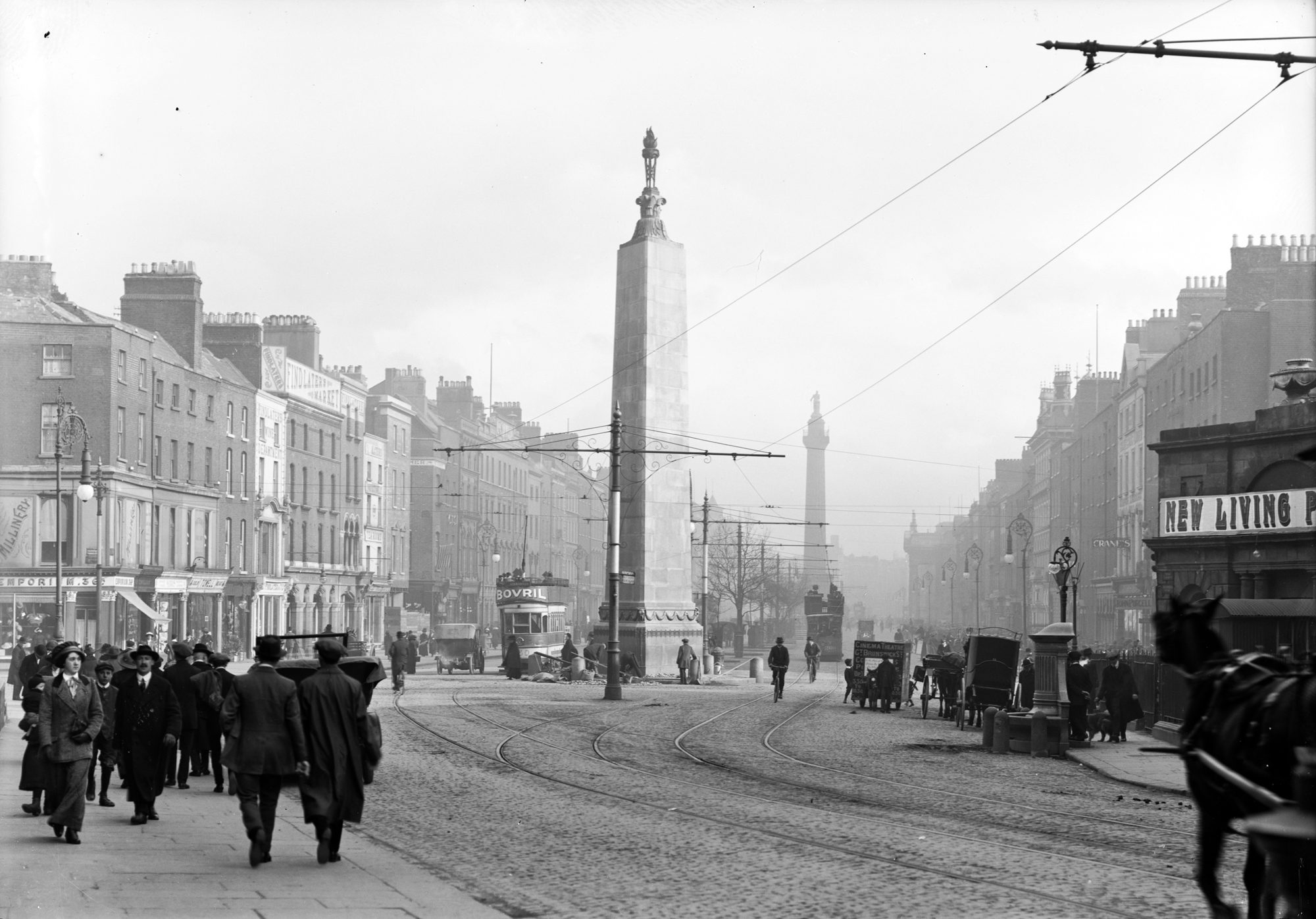 This photo gives a lovely view up Sackville Street (now O'Connell Street), including Nelson's Pillar which was blown up in 1966. Date: Circa 1910 NLI Ref.: Eas 1702